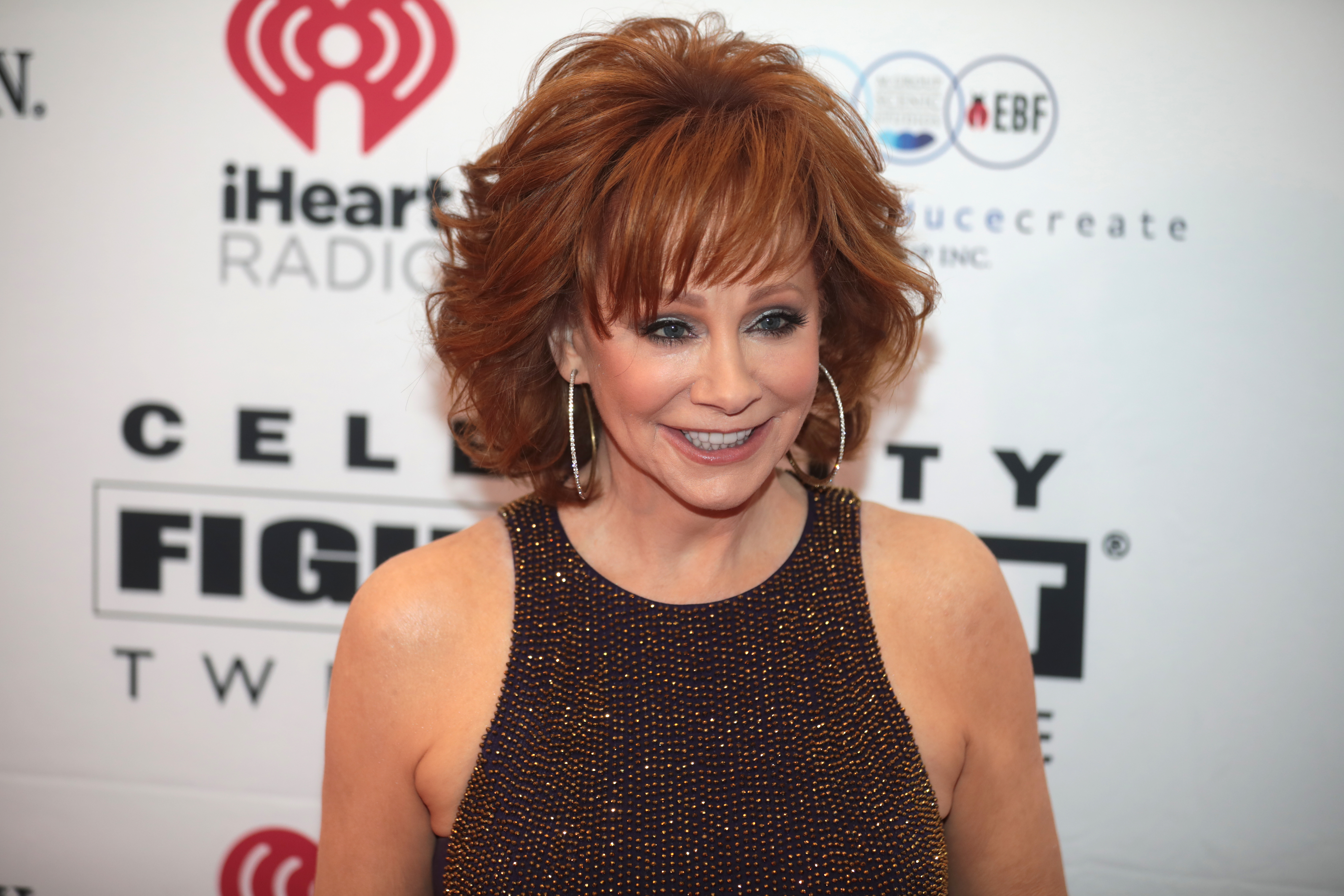 Reba McEntire on the red carpet at Celebrity Fight Night XXV at the JW Marriott Desert Ridge Resort & Spa in Phoenix, Arizona.